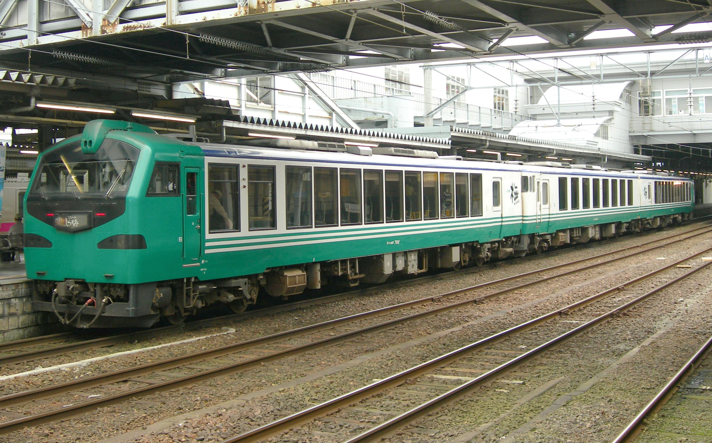 The JR East KiHa 40 series Resort Shirakami - Buna 3-car DMU set at Akita Station